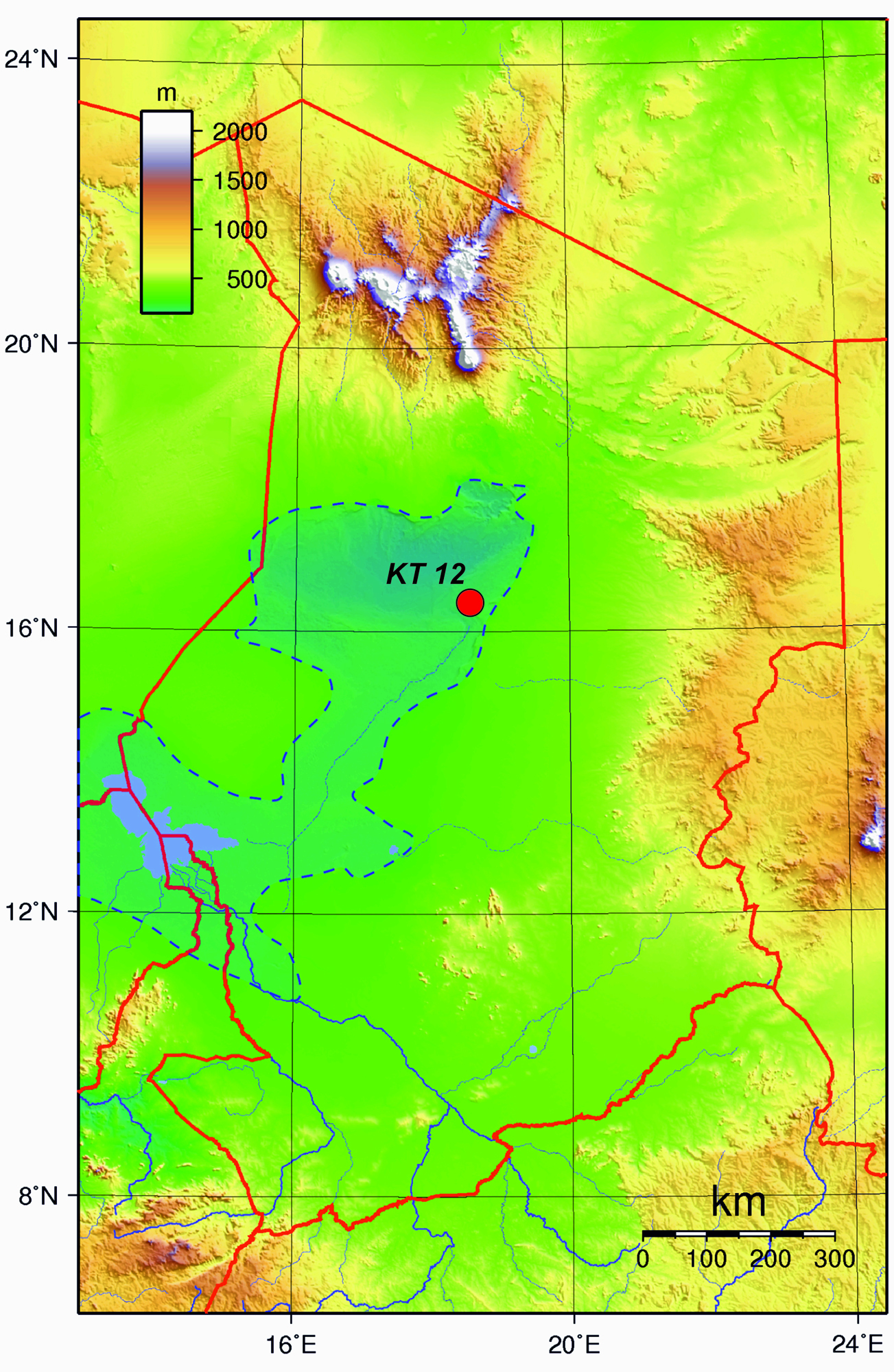 Koro-Toro site 12, Australopithecus bahrelghazali place of discovery. The area limited by a blue dashed line refers to the inferred maximum extension of the Holocene Lake Mega Chad.